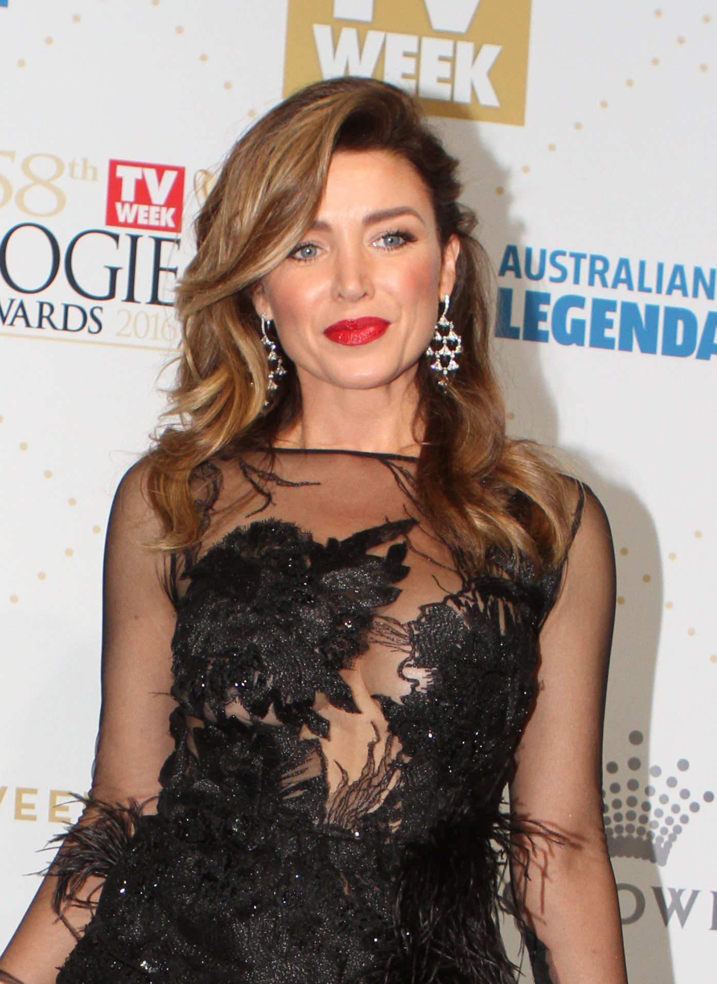 Dannii Minogue arrives at the 58th Annual Logie Awards at Crown Palladium.